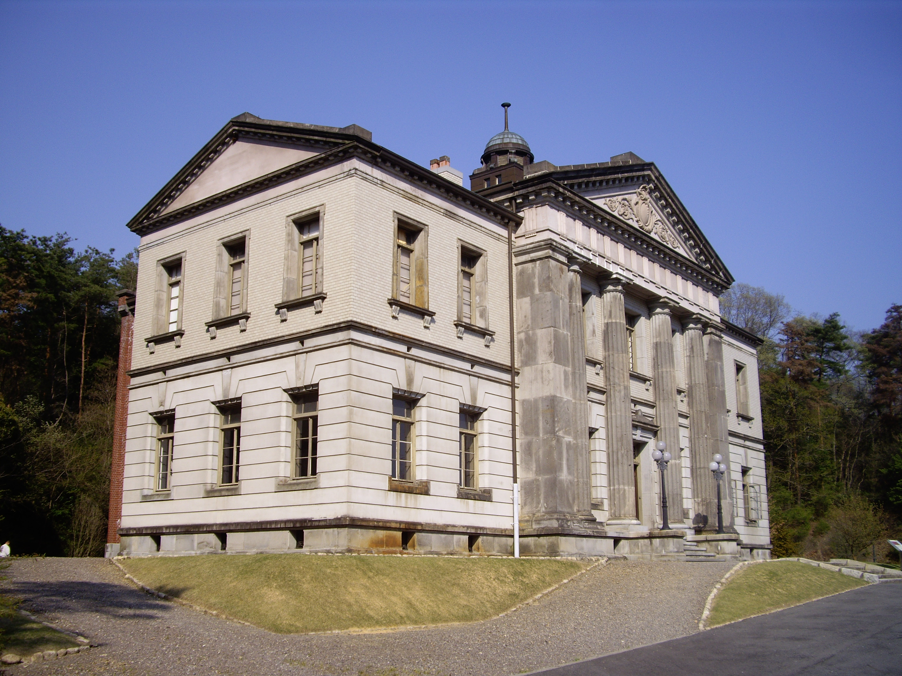 Cabinet Library of Tokyo Imperial Palace, Meiji Mura